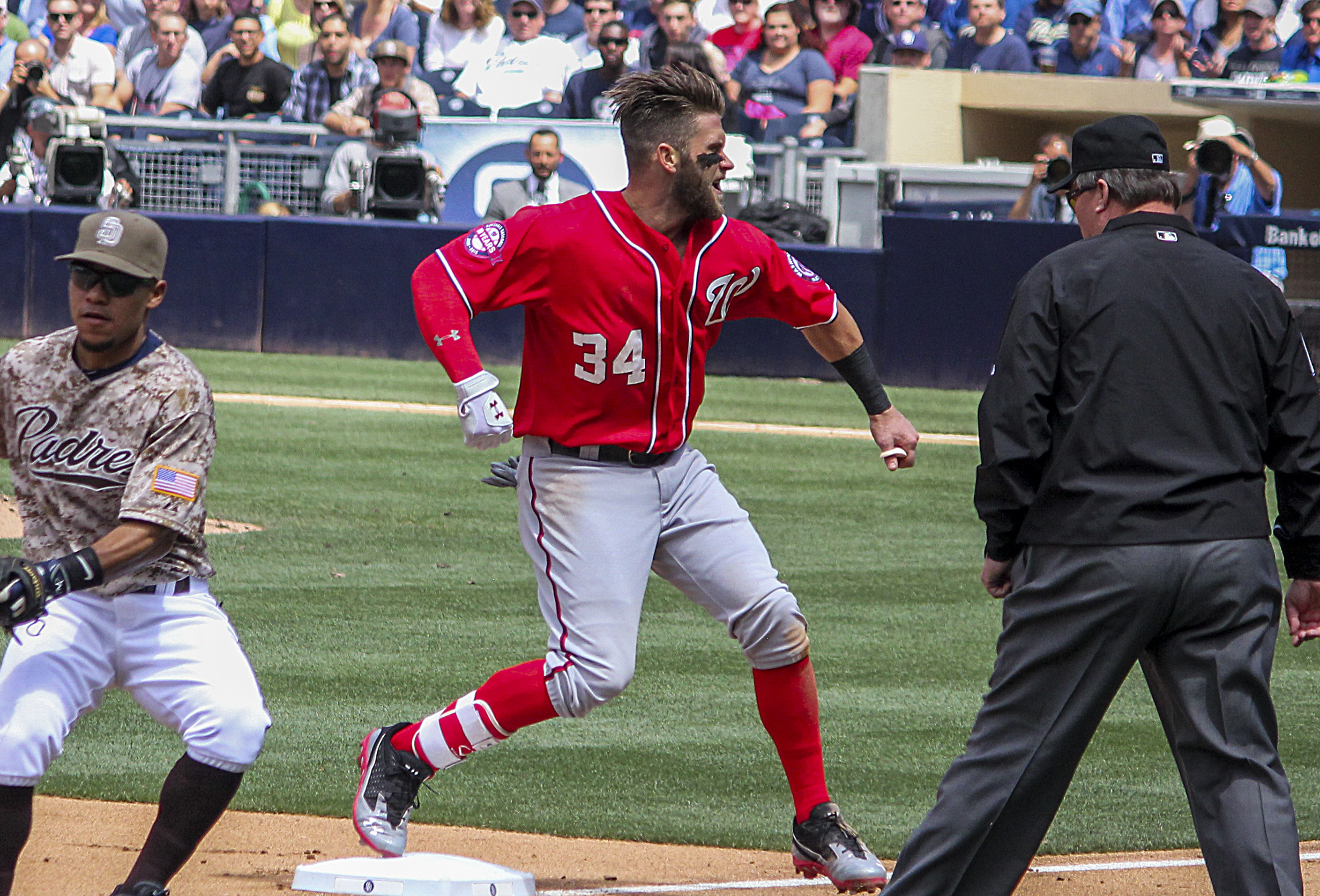 Bryce Harper hits a triple vs the SD Padres 2015.